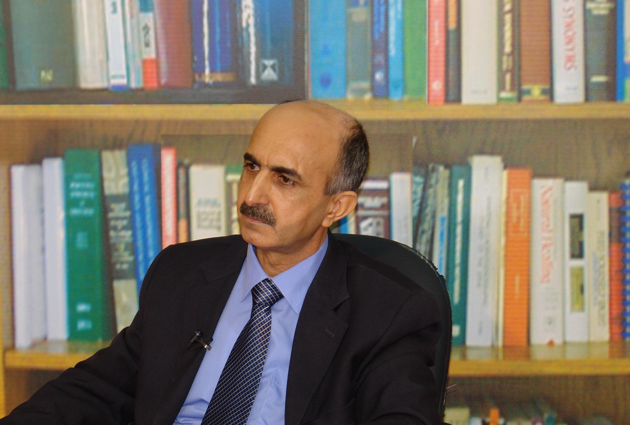 Abdulrahman Sdiq - Kurdish Intellectual and Writer